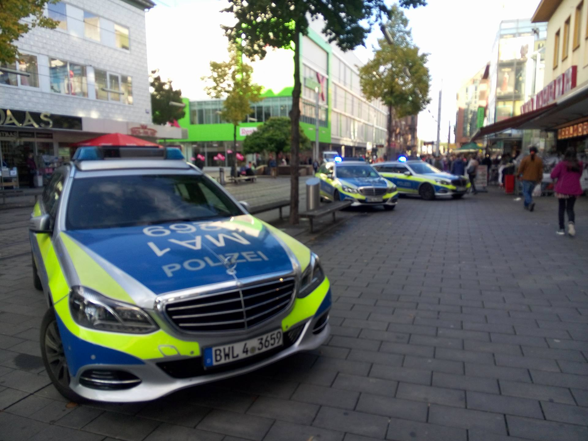 Streifenwägen, Mercedes-Benz E-Klasse in Mannheim